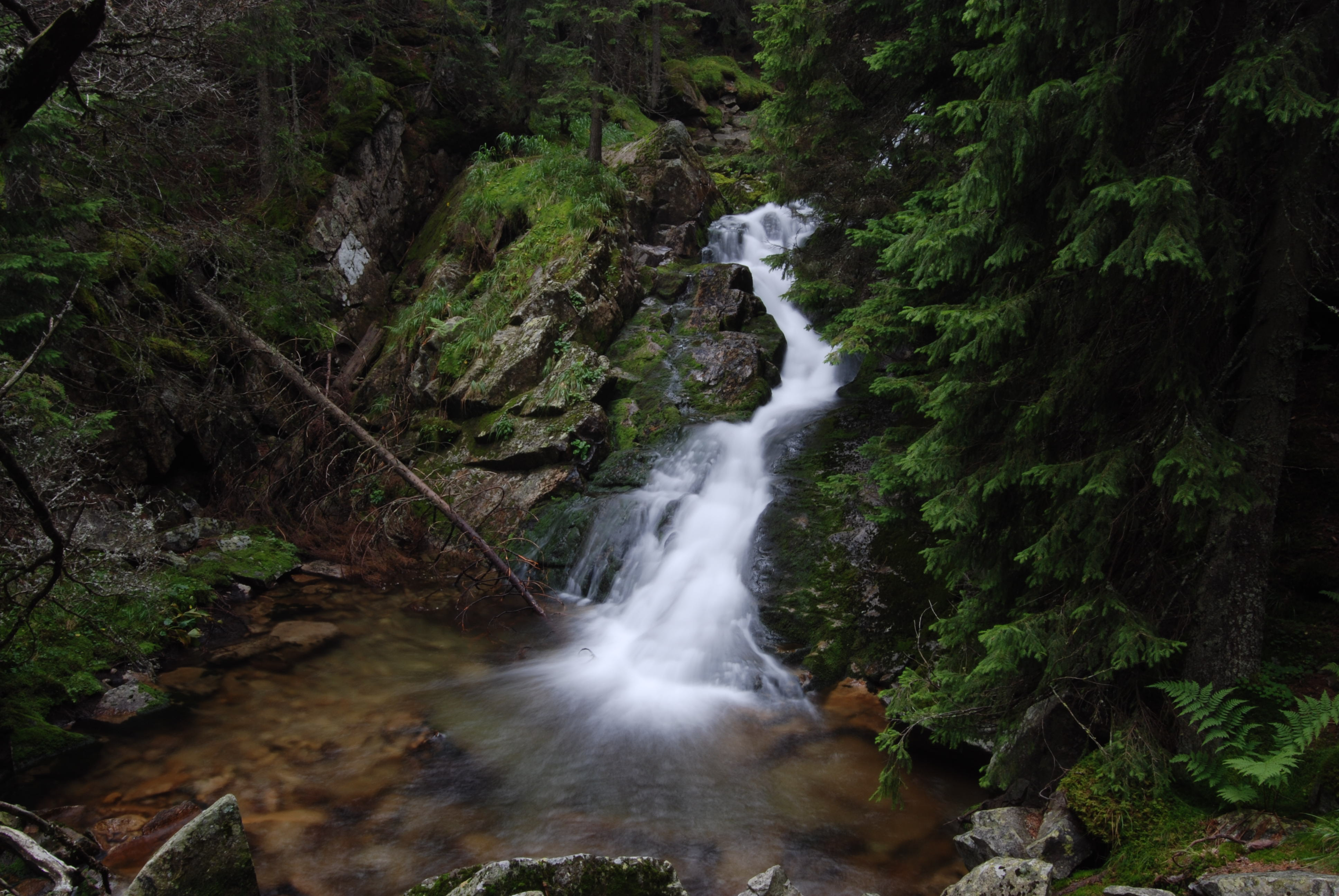 A waterfall on the Stânisoara river in the Retezat mountains. There are hundreds of such waterfalls on every water stream in the masiff. These streams are powered from the park's glacier lakes, this one in particular from the Stânisoara glacier lake.